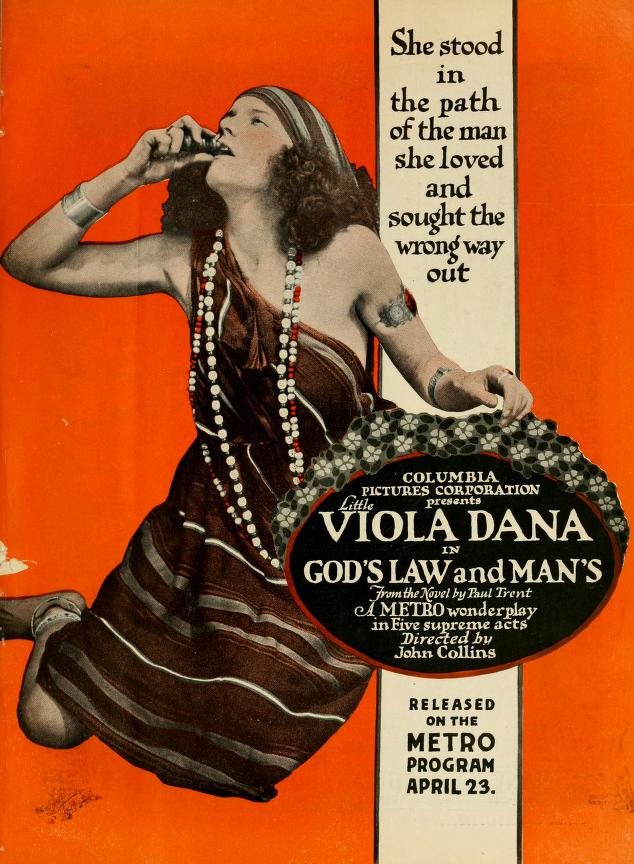 Advertisement in Moving Picture World for the American silent film God's Law and Man's (1917).